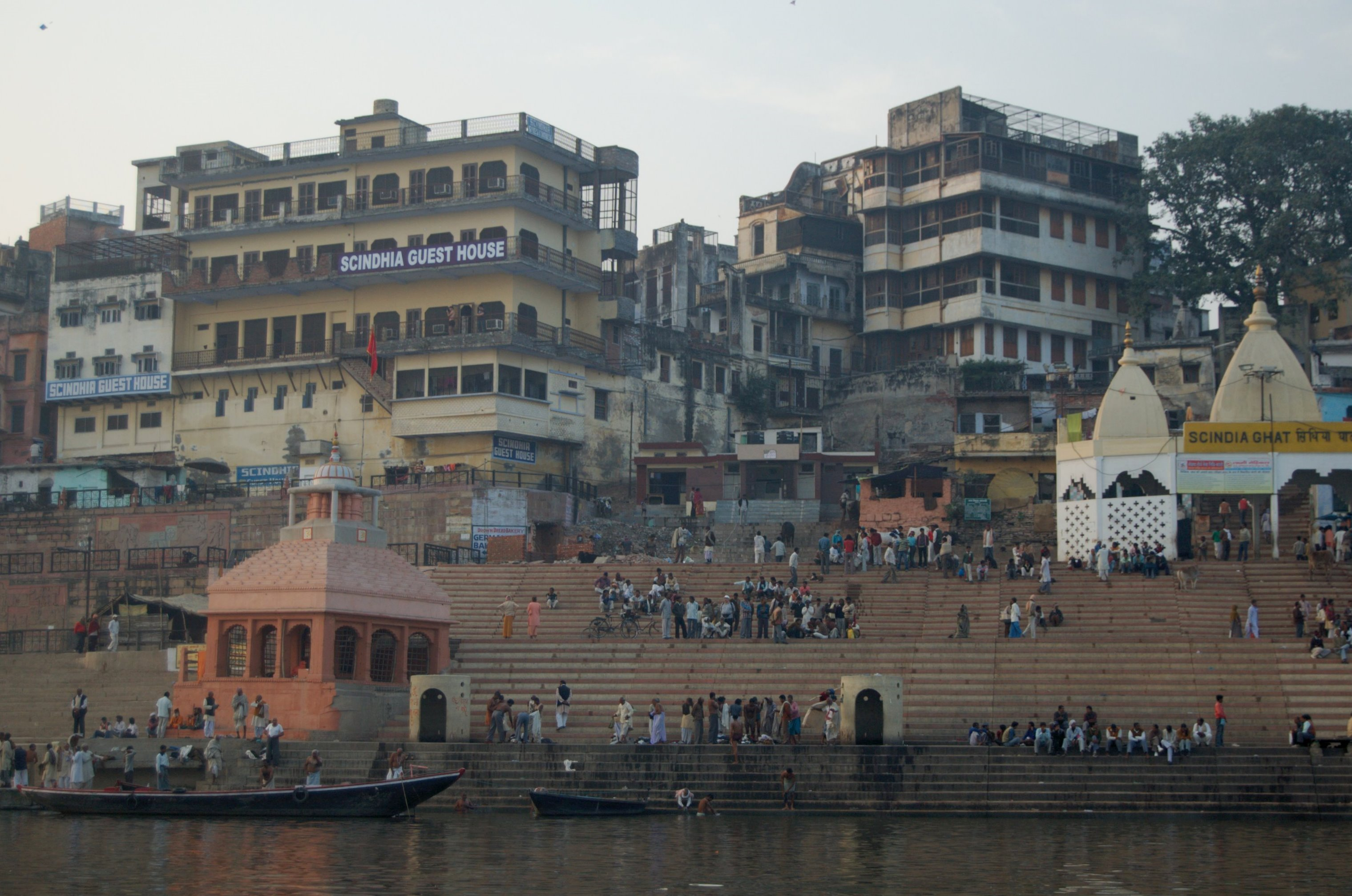 Scindia Ghat